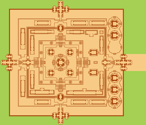 Pre Rup schematic plan. Angkor. Cambodia